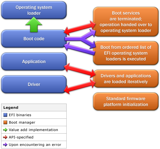 An extended version of a depiction of the workings of Extensible Firmware Interface. Please contact me if this image needs translation or updating.